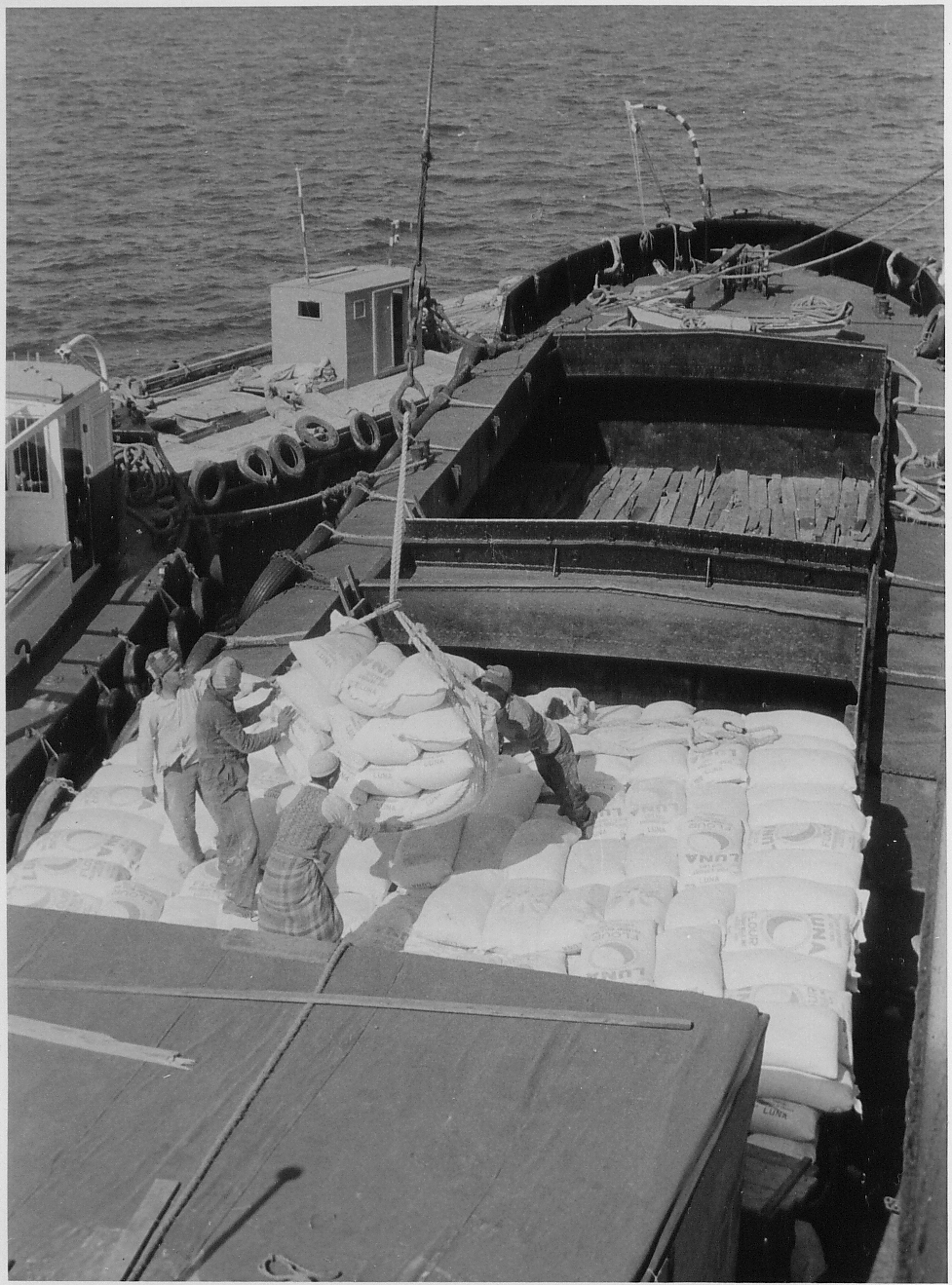 Loading a barge with bagged on the Shatt al-Arab (1958)